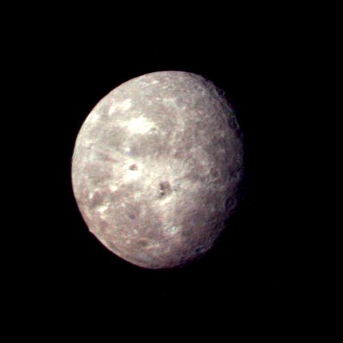 This Voyager 2 picture of Oberon is the best the spacecraft acquired of Uranus' outermost moon. The picture was taken shortly after 3:30 a.m. PST on Jan. 24, 1986, from a distance of 660,000 kilometers (410,000 miles). The color was reconstructed from images taken through the narrow-angle camera's violet, clear and green filters. The picture shows features as small as 12 km (7 mi) on the moon's surface. Clearly visible are several large impact craters in Oberon's icy surface surrounded by bright rays similar to those seen on Jupiter's moon Callisto. Quite prominent near the center of Oberon's disk is a large crater with a bright central peak and a floor partially covered with very dark material. This may be icy, carbon-rich material erupted onto the crater floor sometime after the crater formed. Another striking topographic feature is a large mountain, about 6 km (4 mi) high, peeking out on the lower left limb. The Voyager project is managed for NASA by the Jet Propulsion Laboratory.